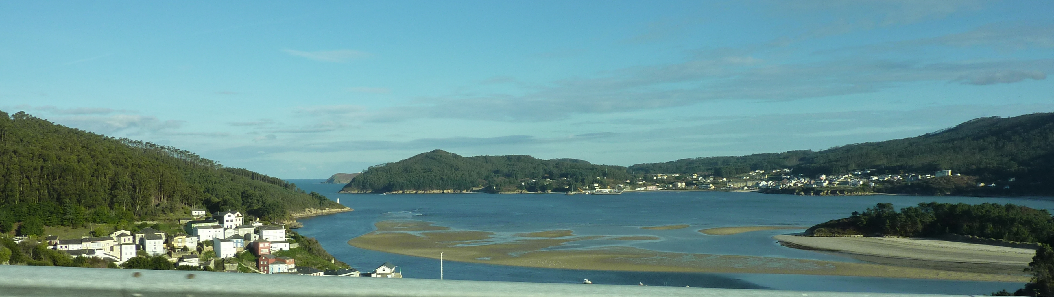 Ría del Barquero (engl. Ria of Barqueiro) and river Sor of Mañón, Galicia, Spain.